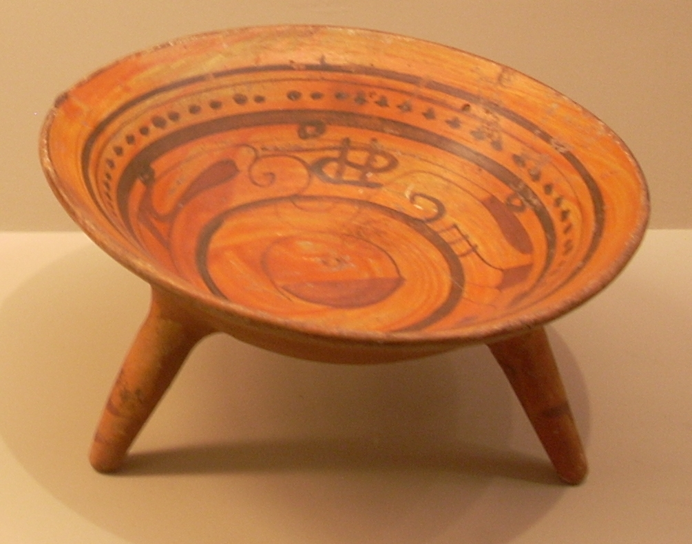 Tripod plate from Cholula, Puebla, Late Postclassic (AD 1300-1521). In the British Museum, London.